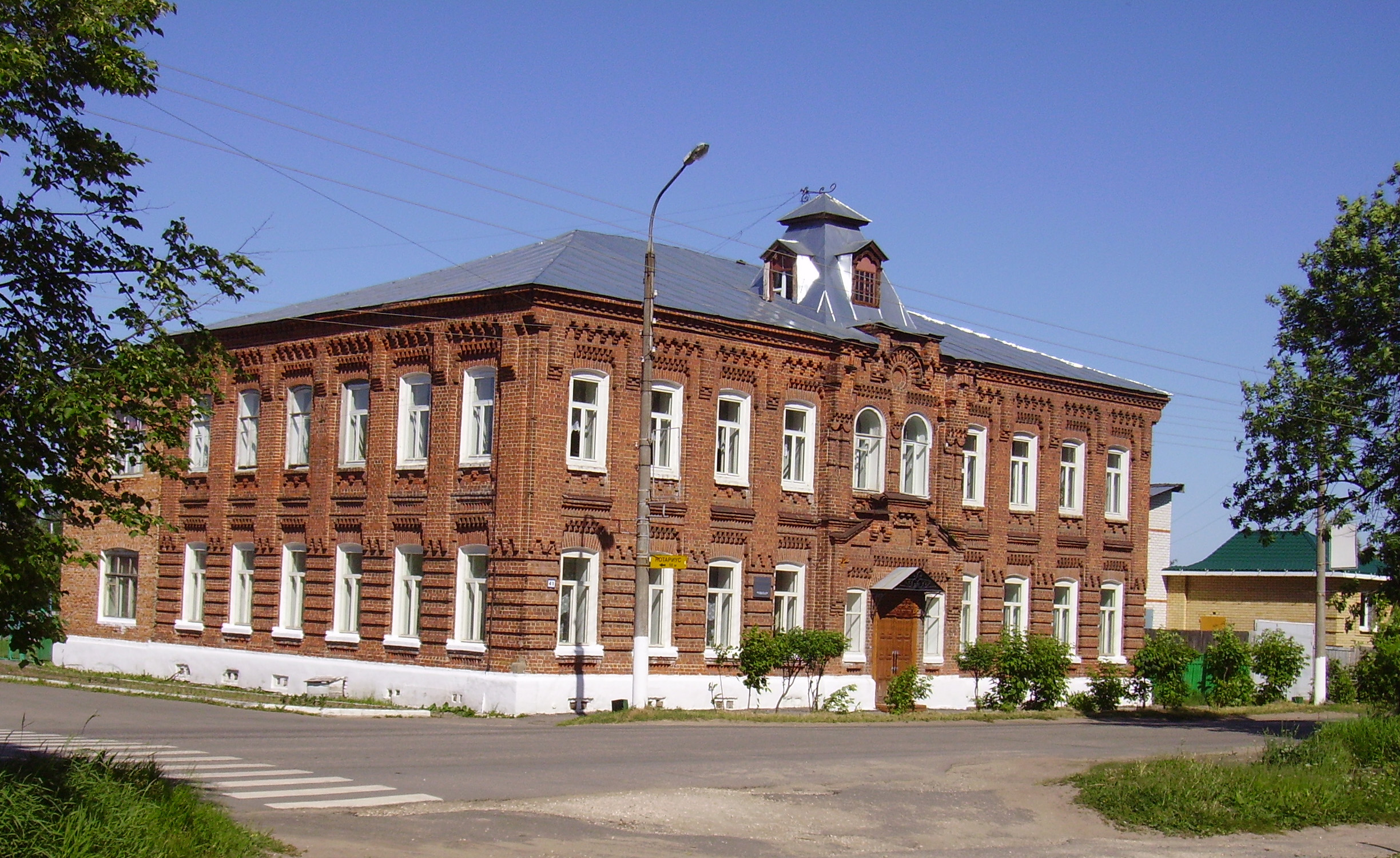 Gorokhovets, former girl's grammar school at the corner of Lenin Street & Pushkinsky Lane.